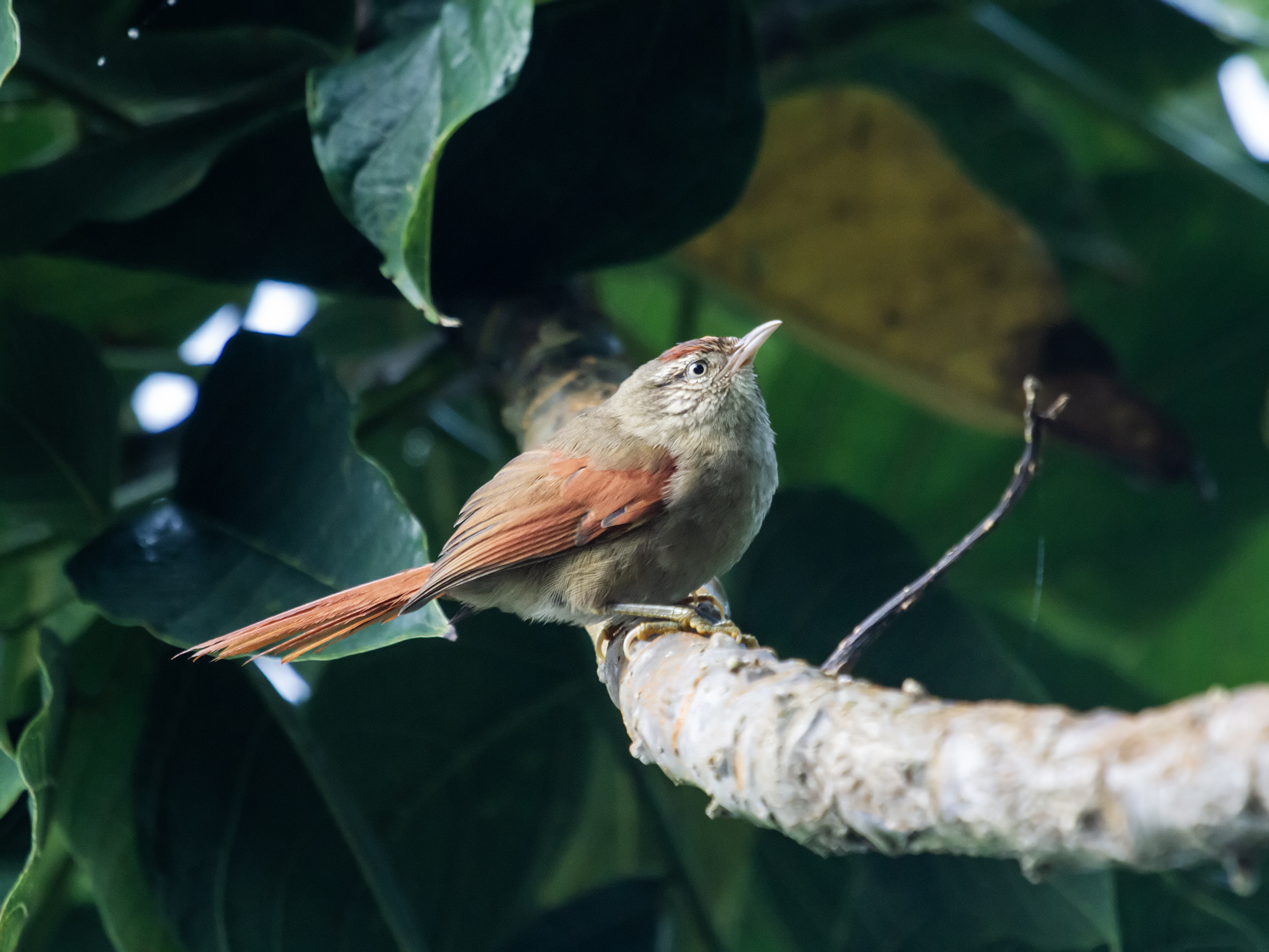 Streak-capped Spinetail from El Dorado Reserve, Magdalena, Colombia